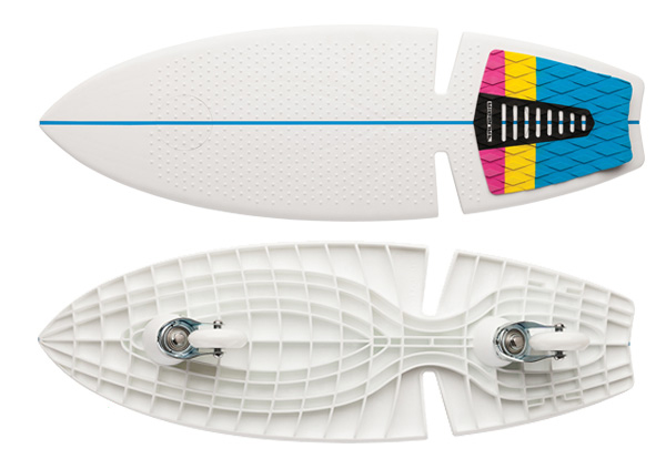 RipSurf